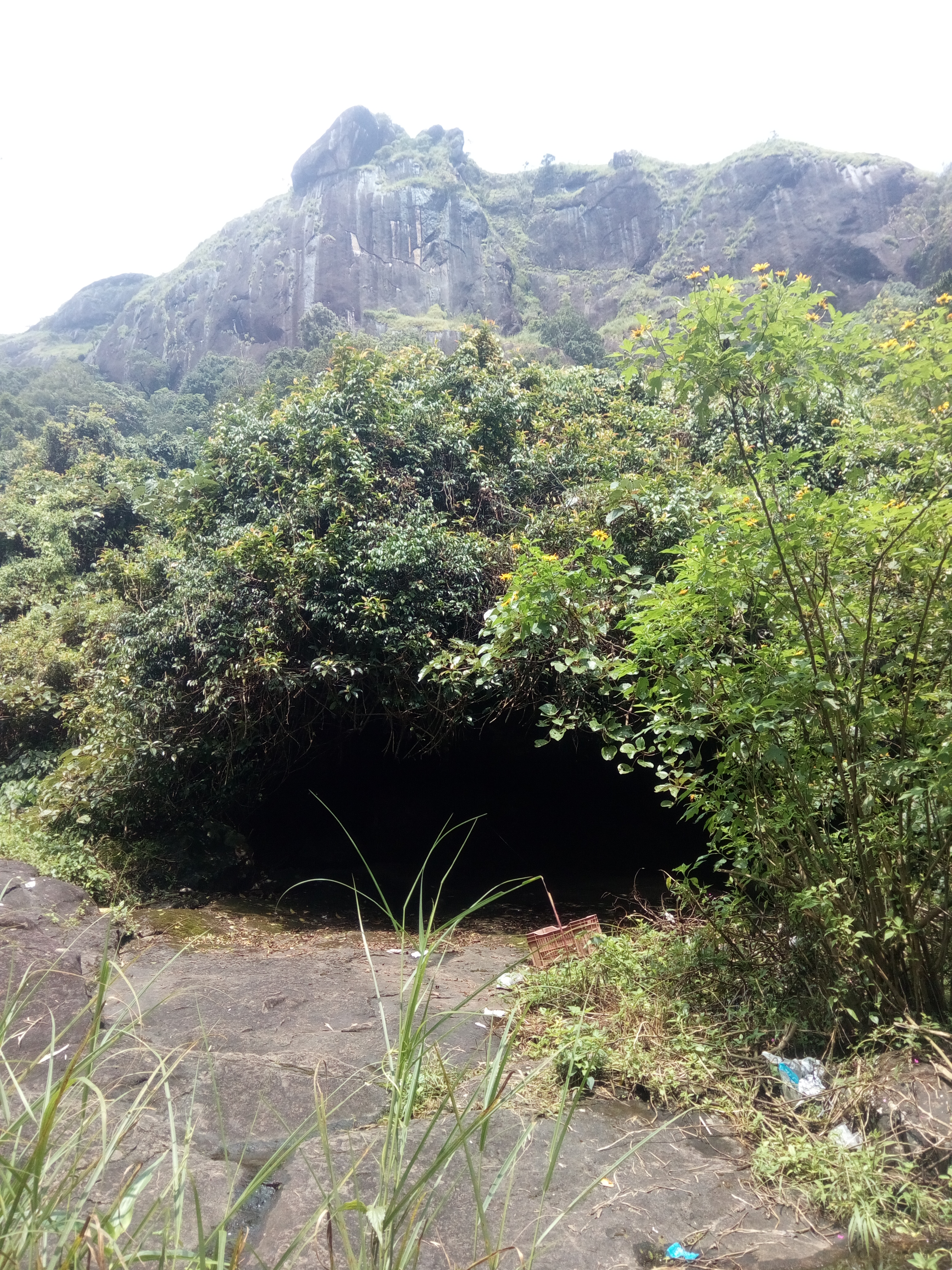 Pazhassi cave is in kakkadampoyil, near nilampur. Malappuram dist. Kerala, India. It is a secret cave used by pazhassi raja. The route to this cave is very narrow through Forest.